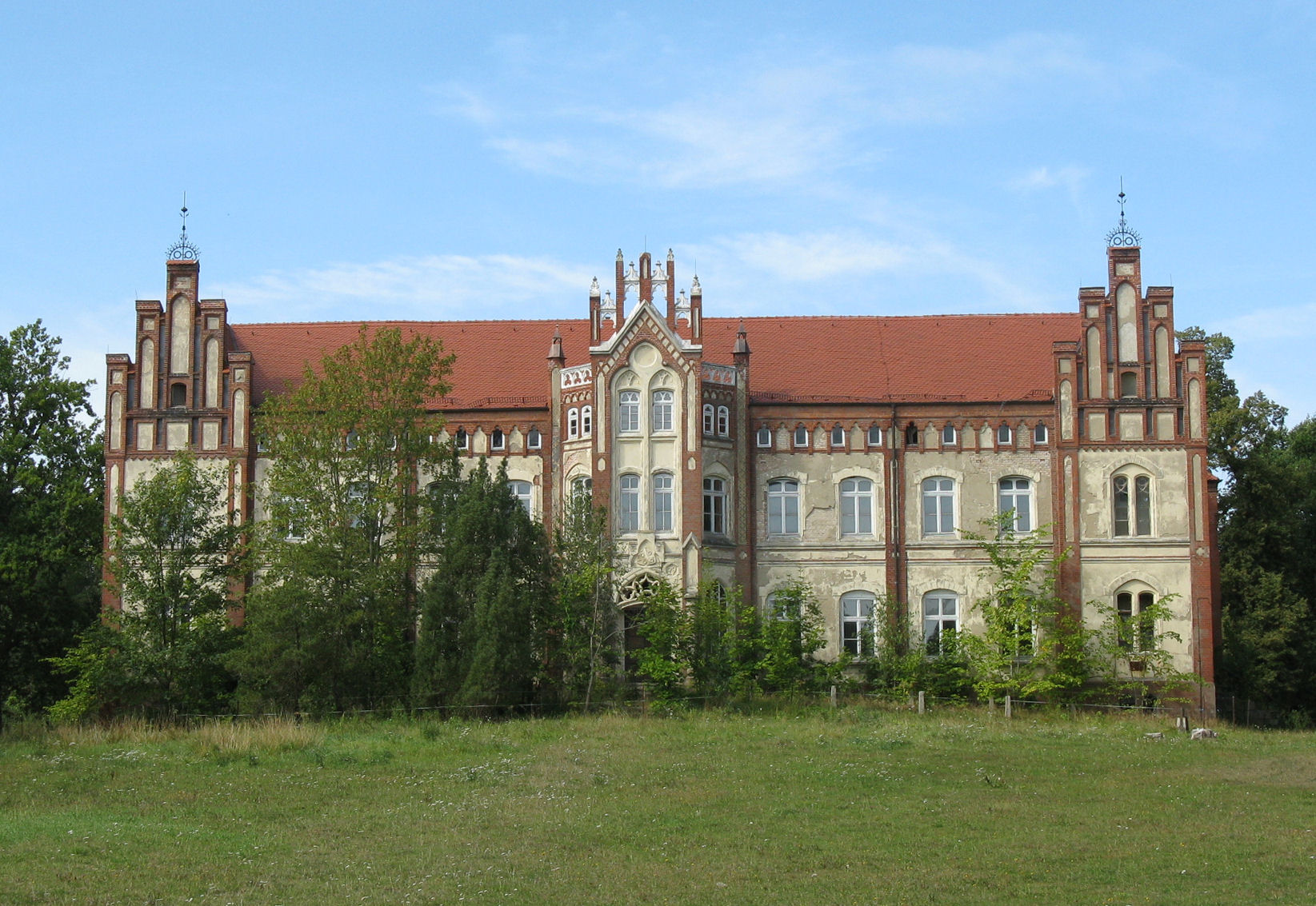 Manor house in Walow, disctrict Mecklenburgische Seenplatte, Mecklenburg-Vorpommern, Germany